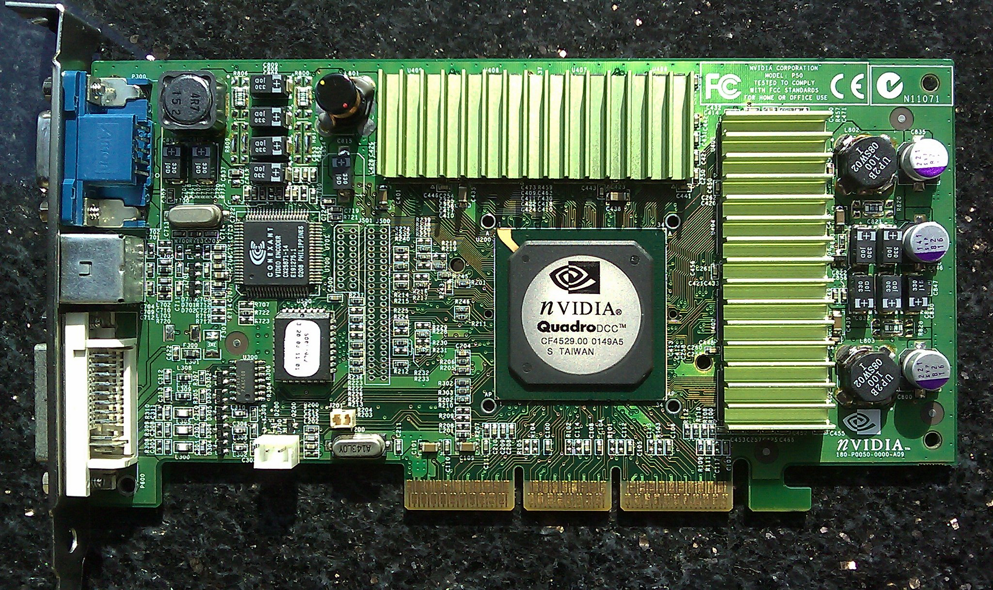 NVIDIA Quadro DCC ELSA GLoria DCC Graphic card